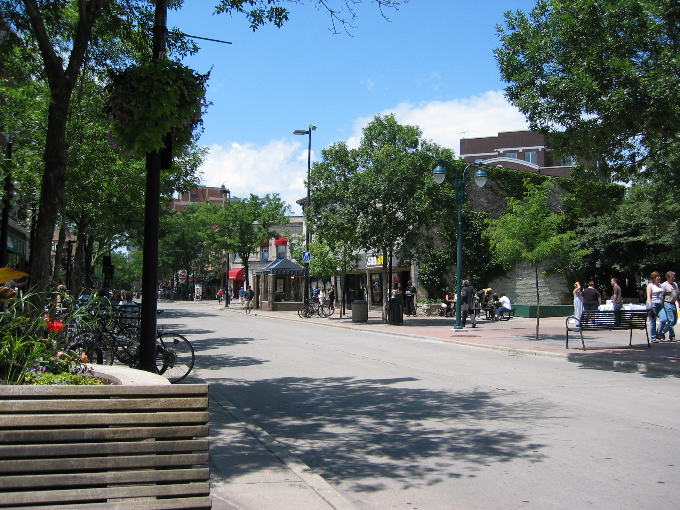 View of State Street